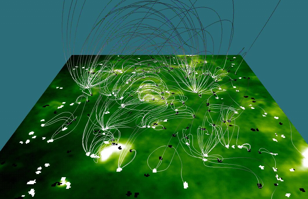 Simulation of magnetic fieldlines on sun. Black and white mark opposite polarity. Related text: ftp://ftp.hq.nasa.gov/pub/pao/pressrel/1997/97-256.txt